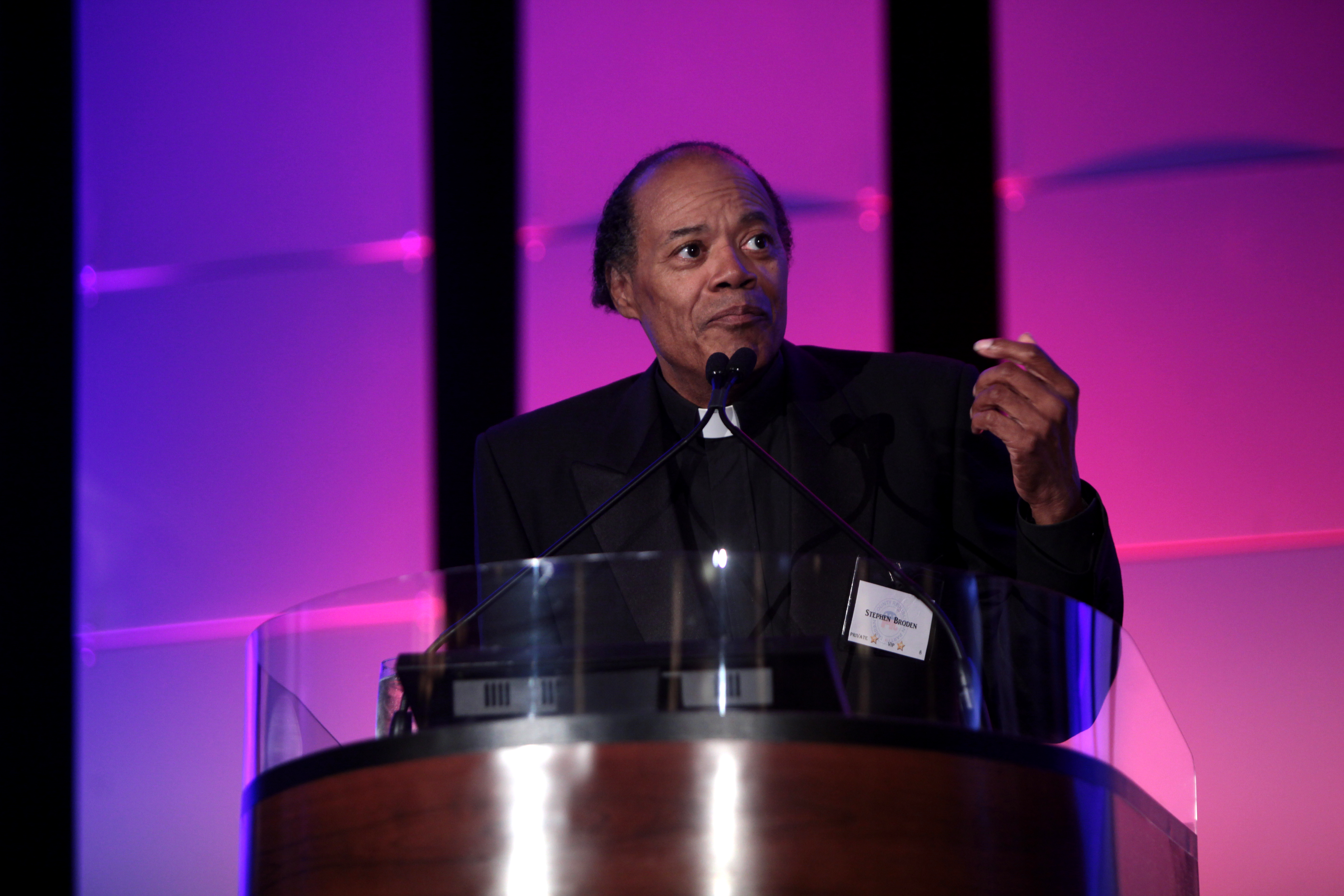 Stephen Broden speaking at the 2015 Lincoln Day Dinner for the Tarrant County Republican Party in Fort Worth, Texas.